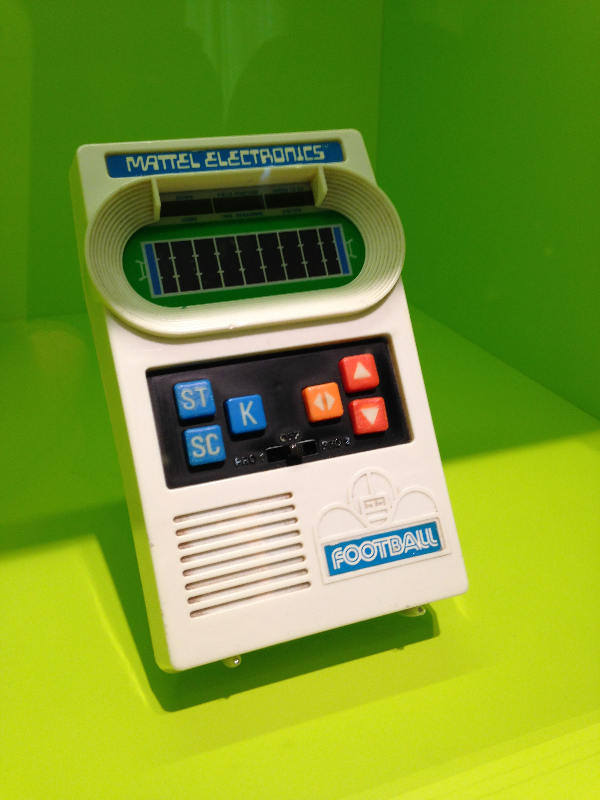 Mattel Electronics Game